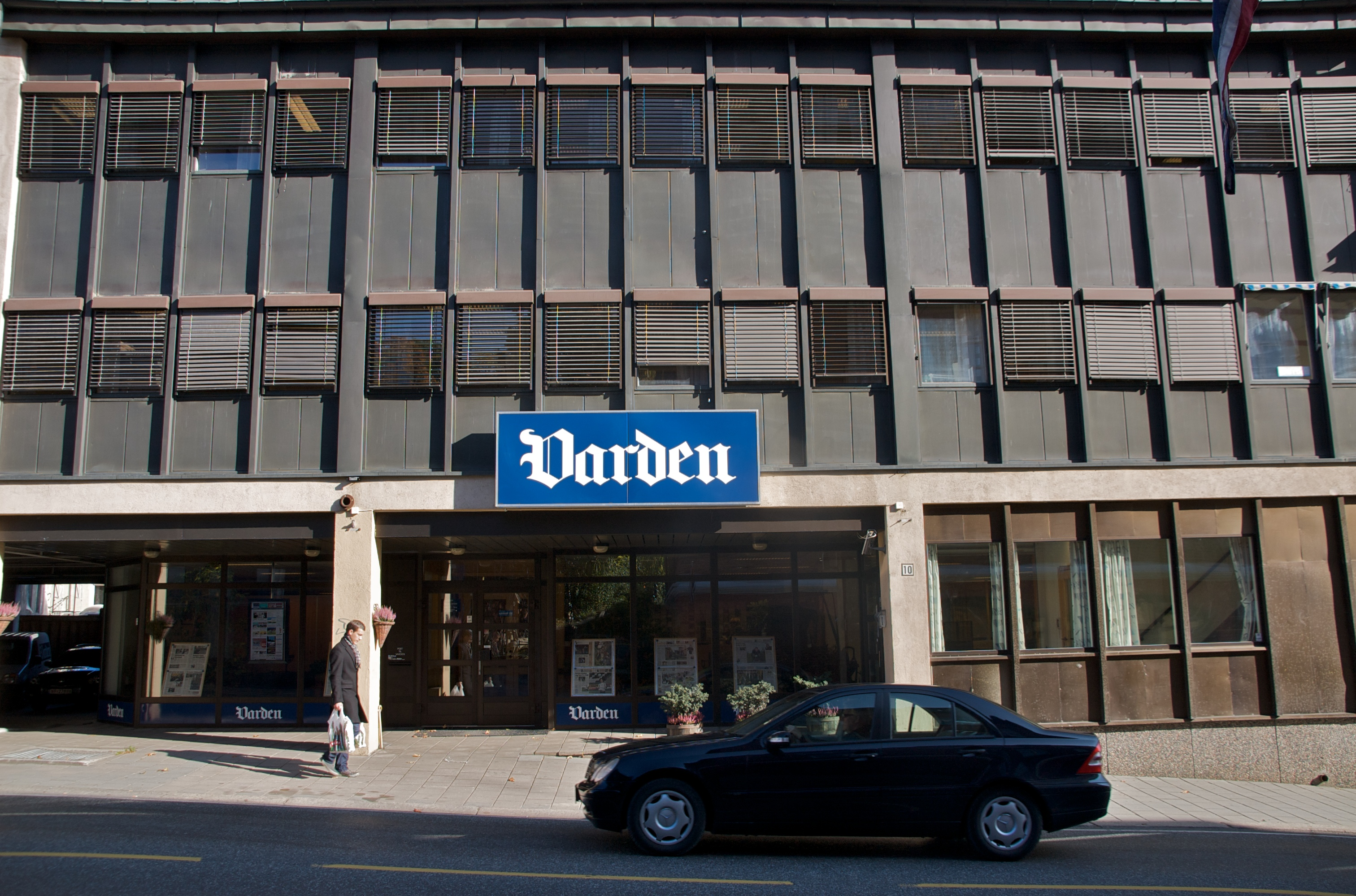 Building in Skien, Norway. Address: Prinsessegata 10. Head office for the newspaper "Varden"